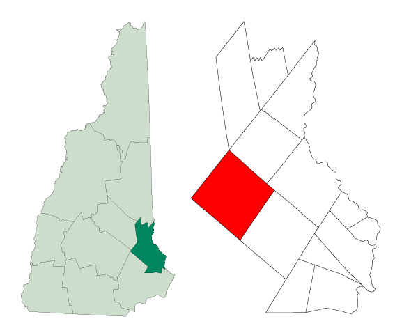 Created from Boundary/Border Outline Files of the Libre Map Project which held a BY-SA creative commons license. Data origionally from 2000 US Census boundary data.